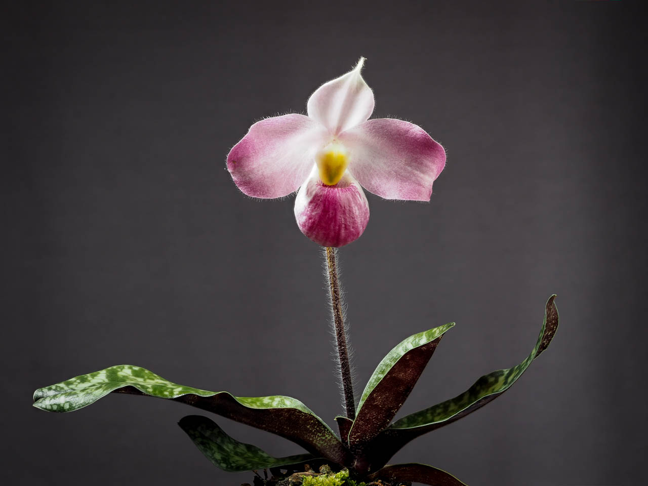 Paphiopedilum vietnamense